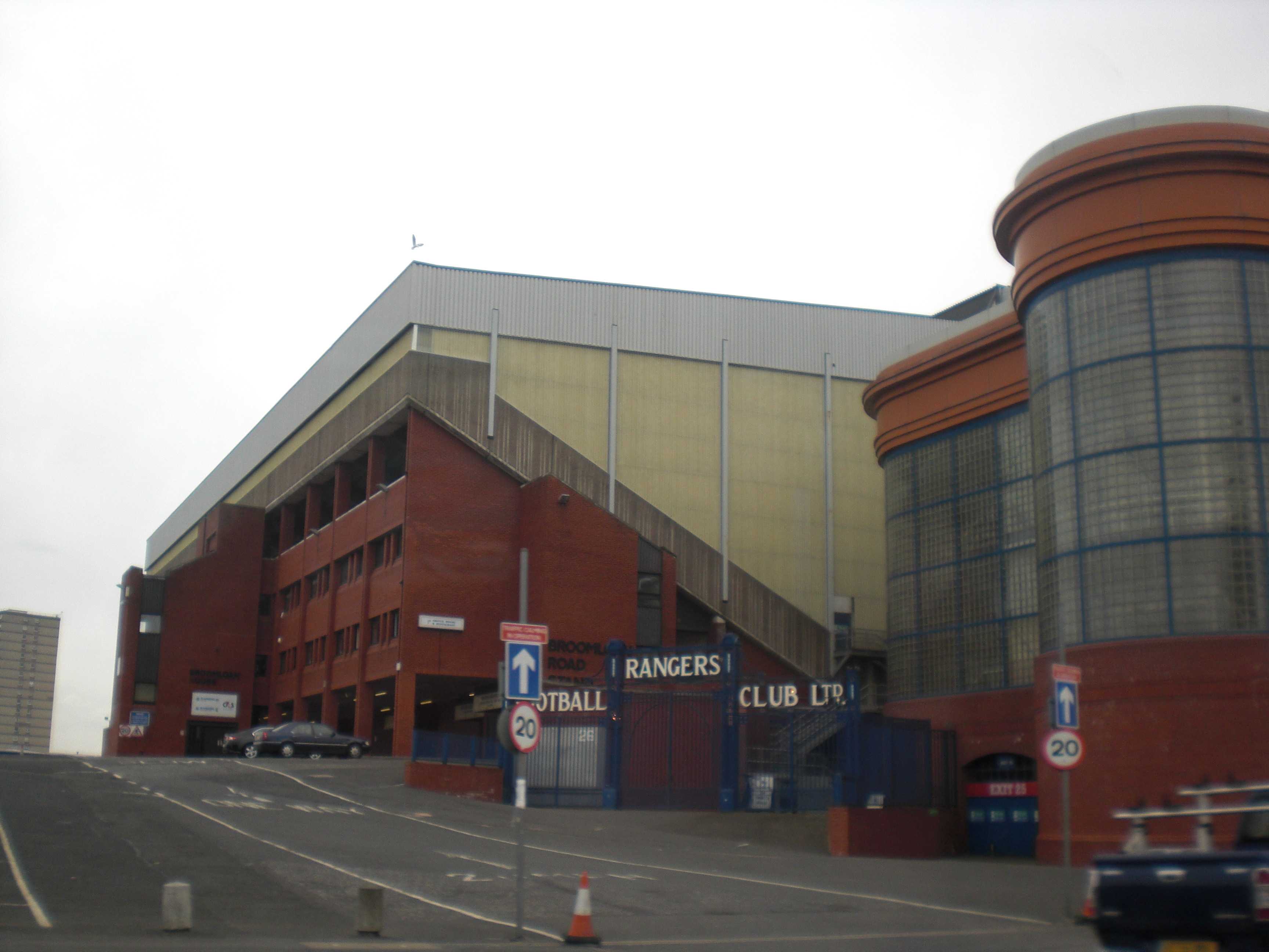 Glasgow Rangers - outside Ibrox Stadium